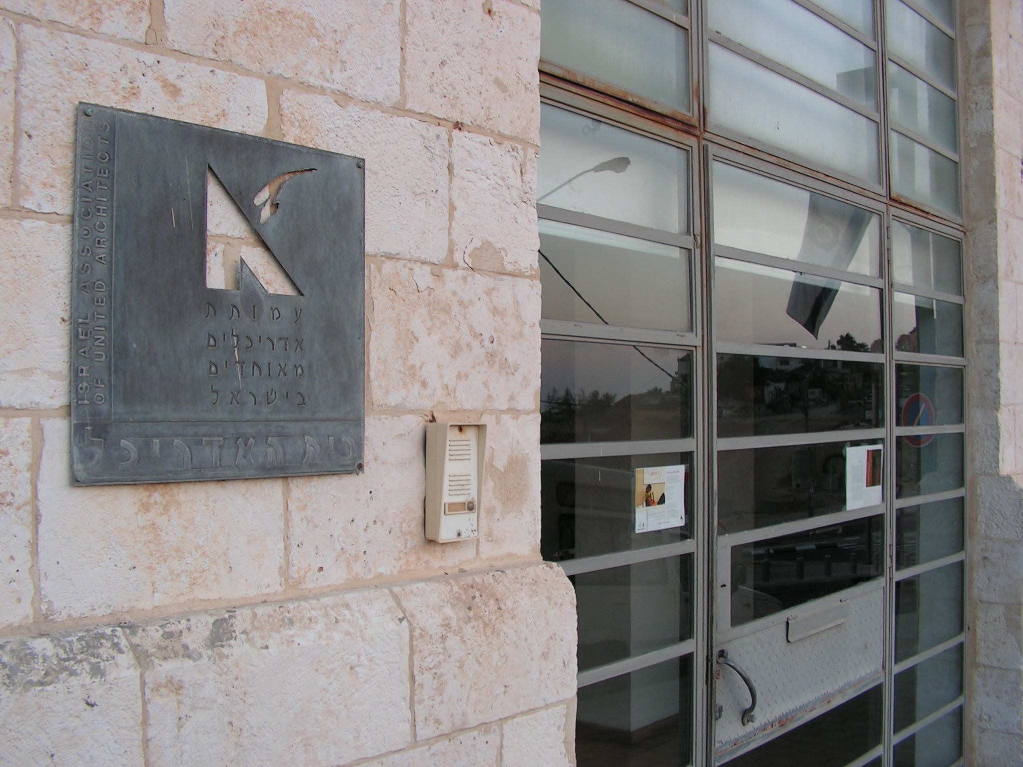 בית האדריכל - רחוב המגדלור 15 - תל אביב-יפו